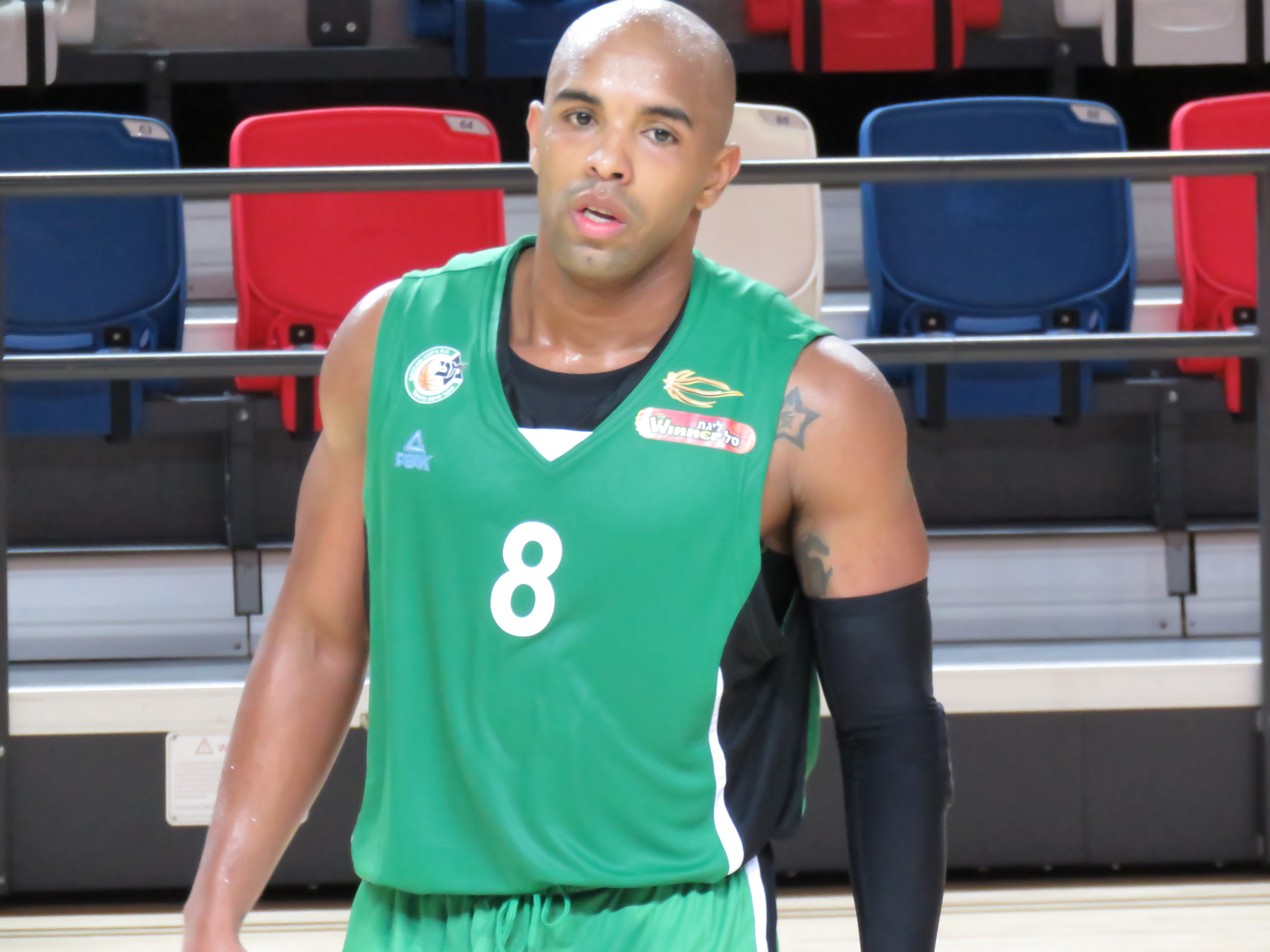 Hapoel Eilat vs. Maccabi Haifa B.C., 25 September, 2015